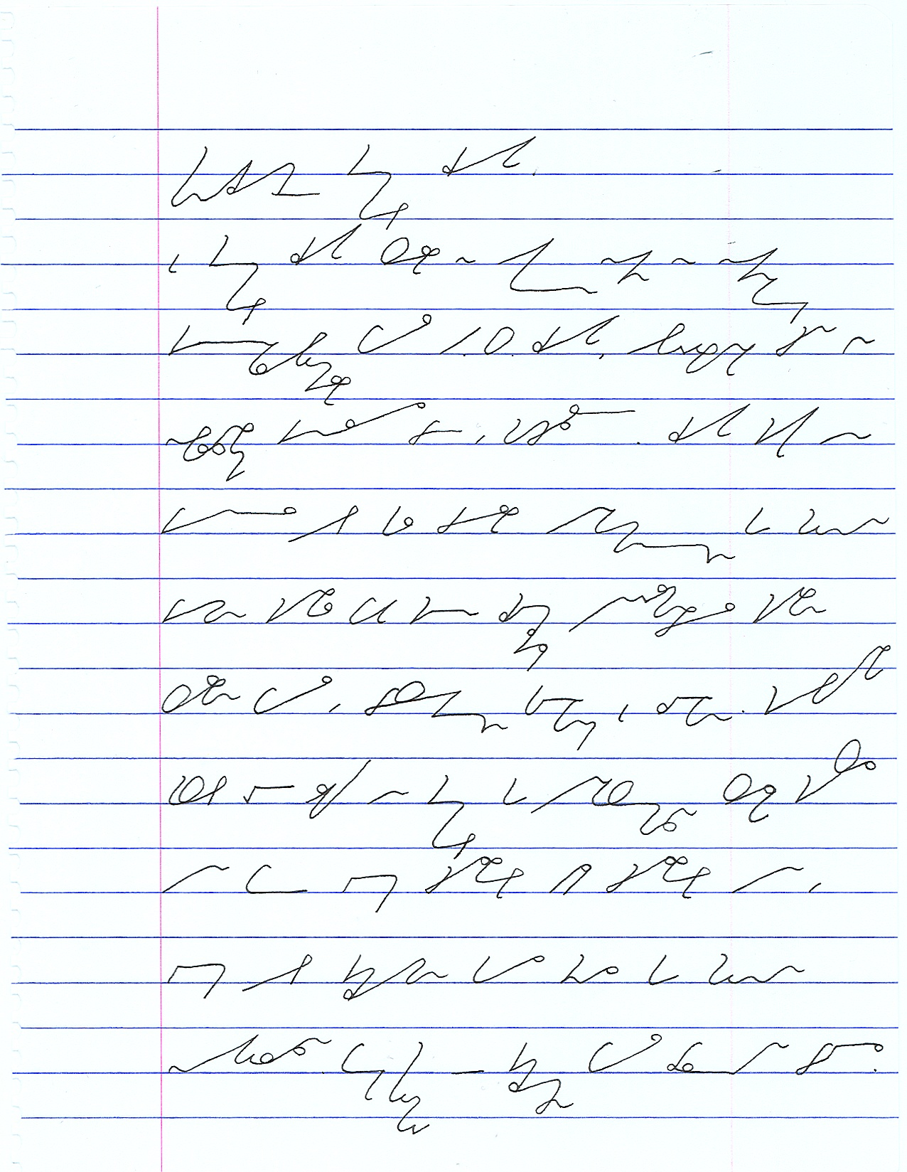 One page of written stenography, system Groote